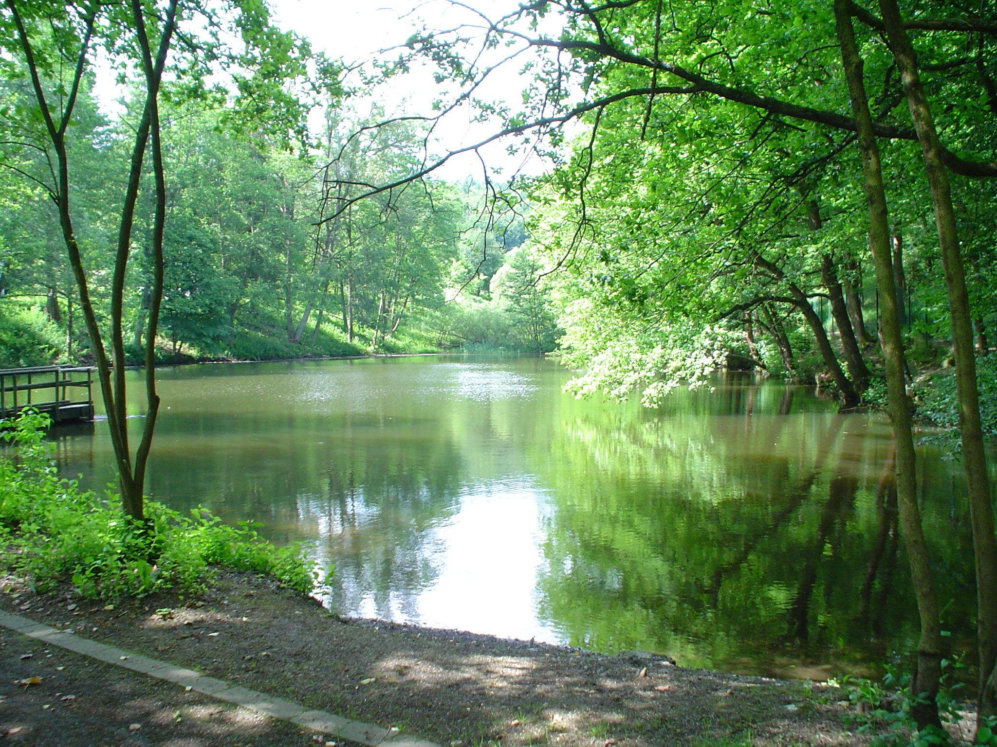 Lake, Hermelsbacher Cemetry